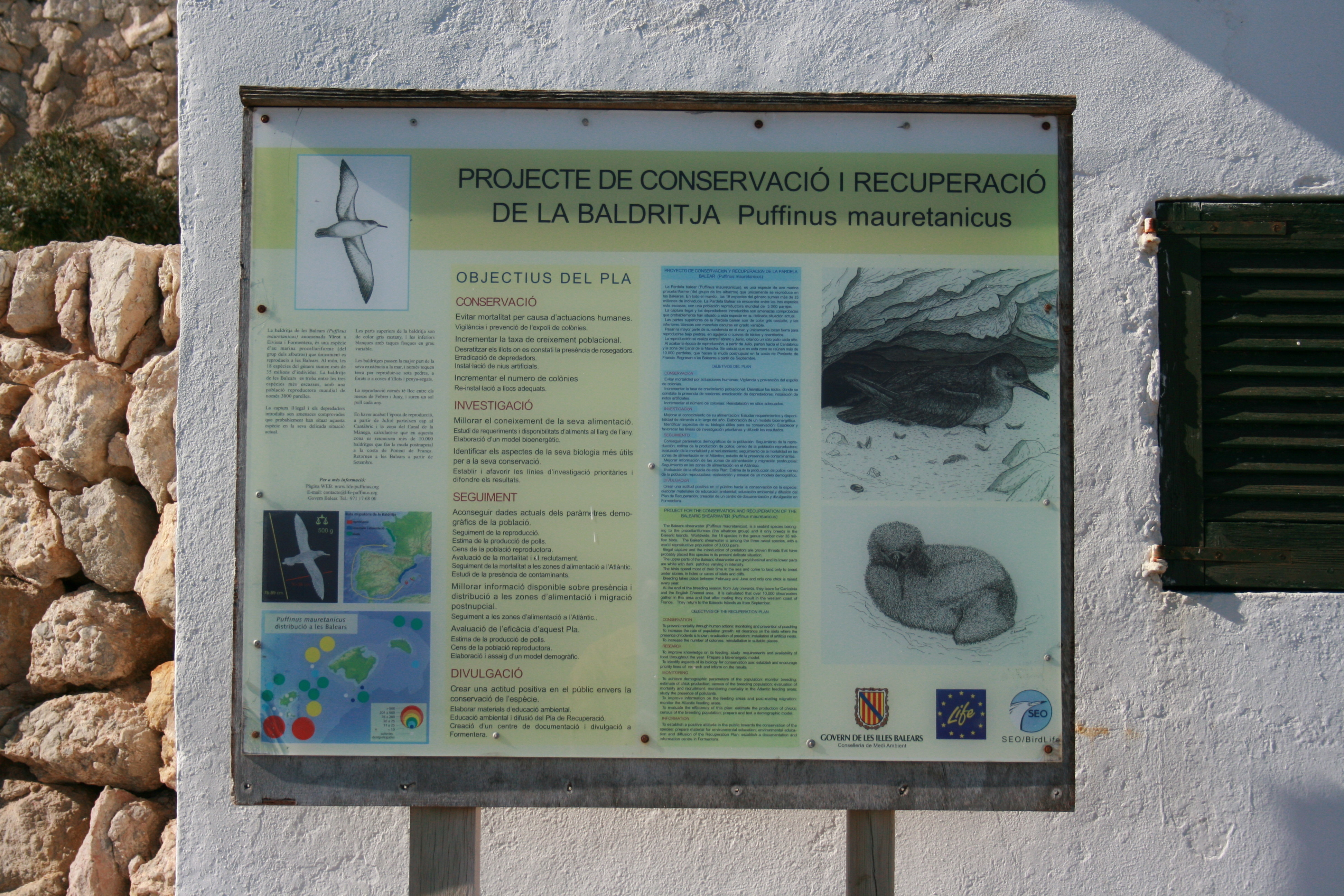 Far de Formentor at Cap de Formentor, peninsula of Formentor, Pollença, Mallorca